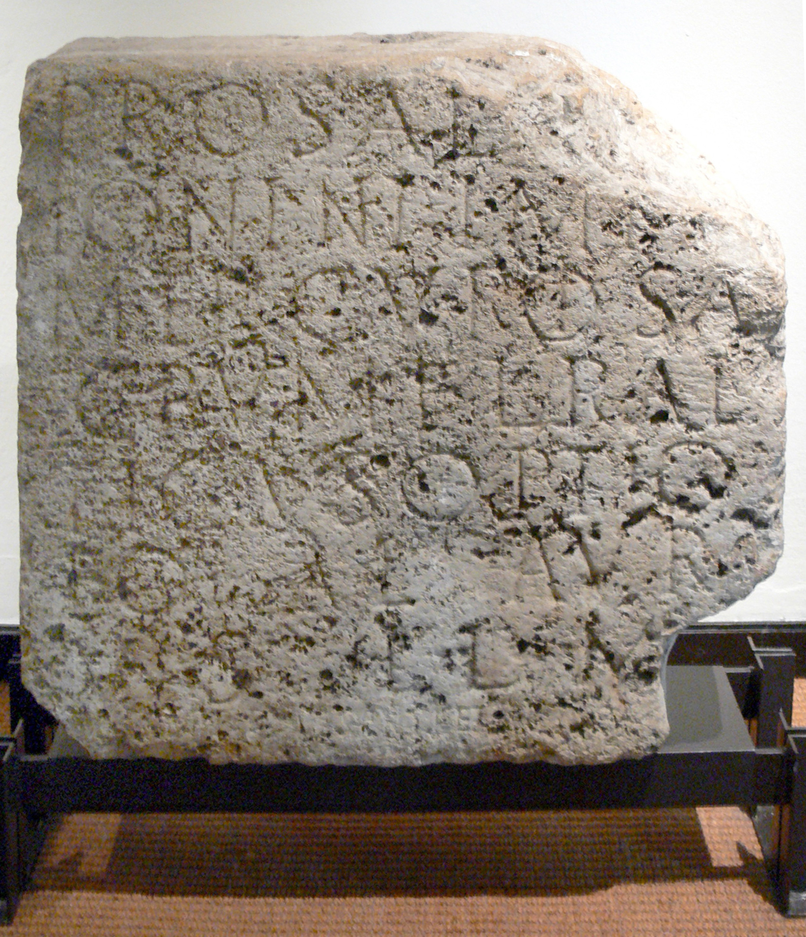 Weißenburg (Bavaria). Roman Museum: Votive altar for Mercur, set by Flavius Raeticus, optio of the Ala Auriana, in 153 AD.